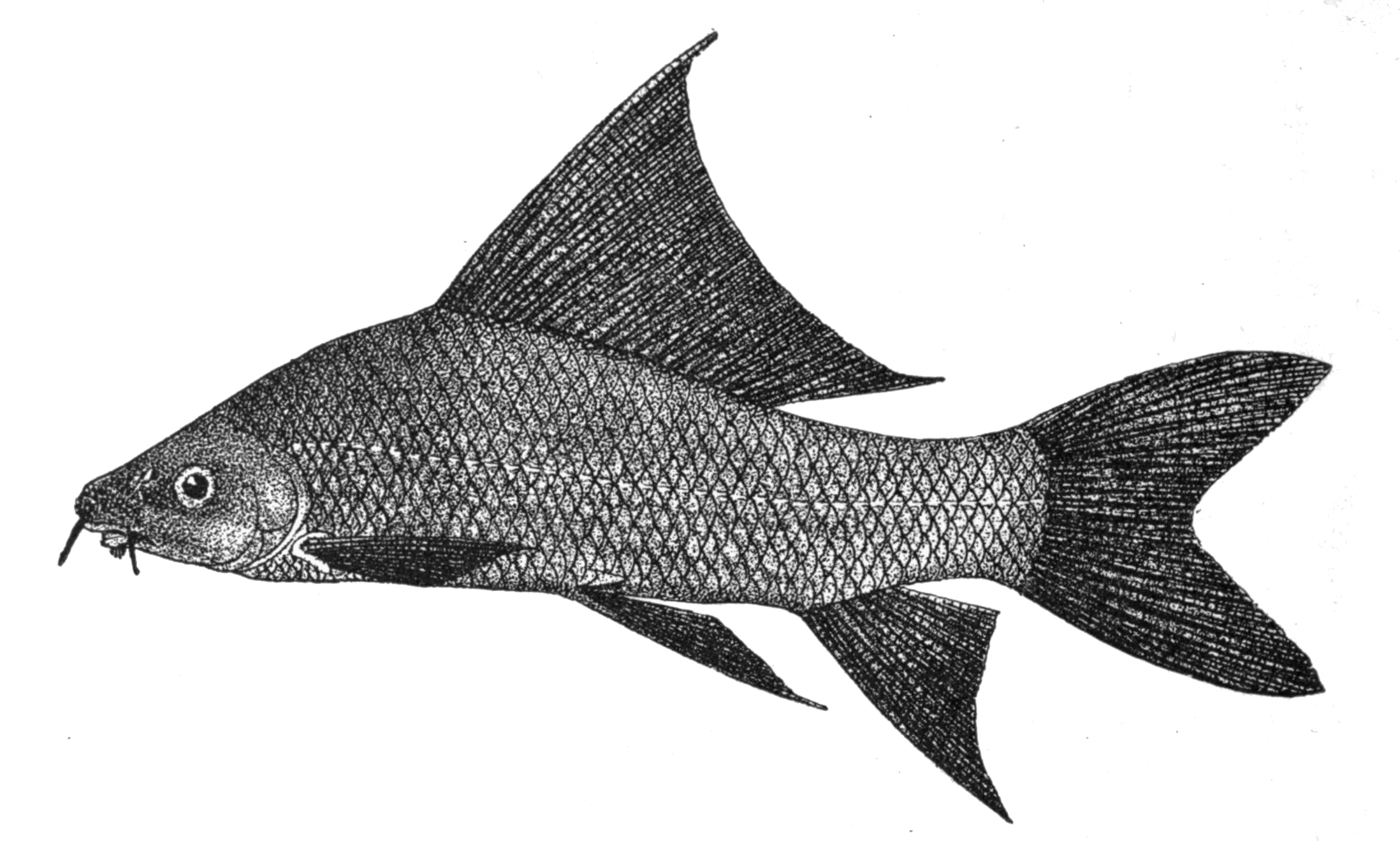 Labeo chrysophekadion